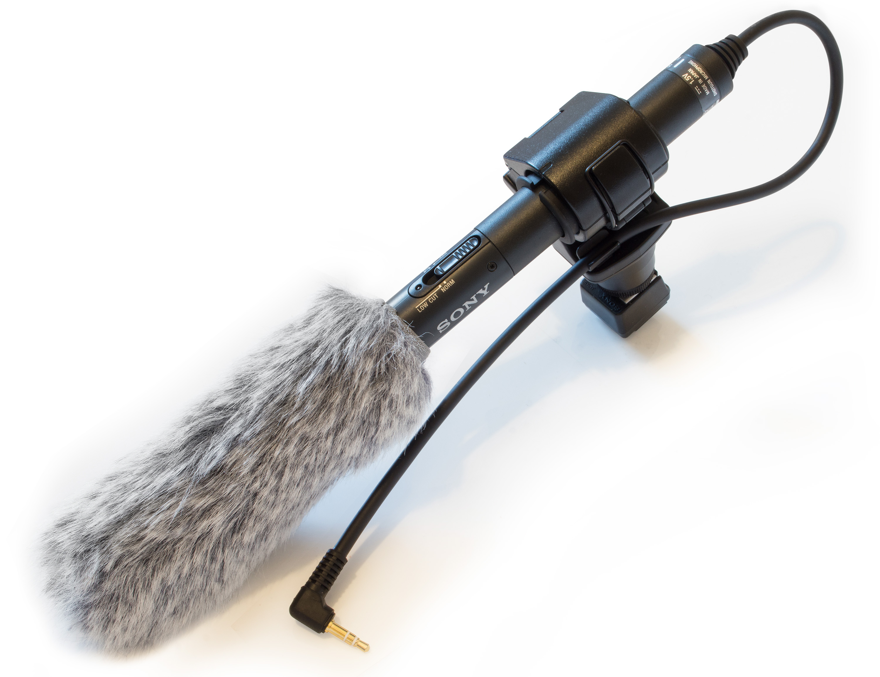 Sony ECM-CG50, Sony Alpha Shotgun Microphone with wind screen on. Note TRS jack and low-cut option used for outdoor shooting.